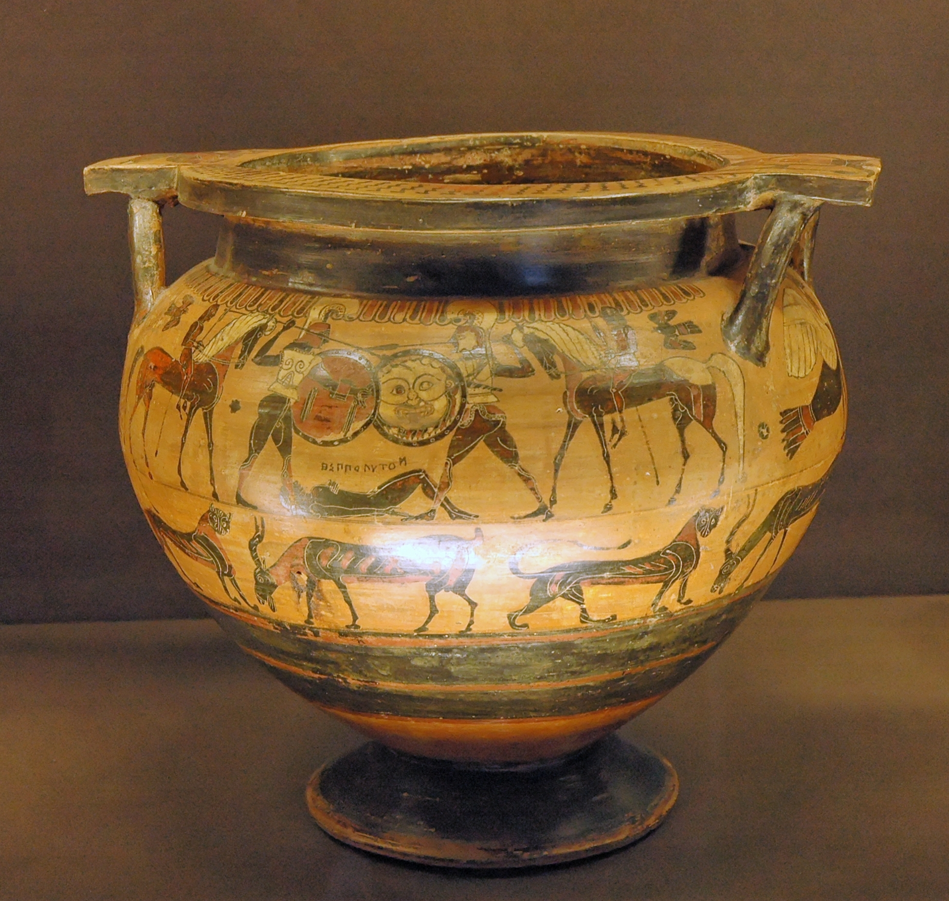 Corinthian black-figure column-krater.